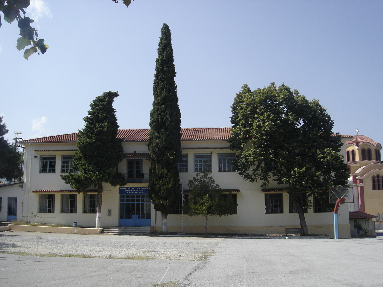 The Primary School of Skotina.